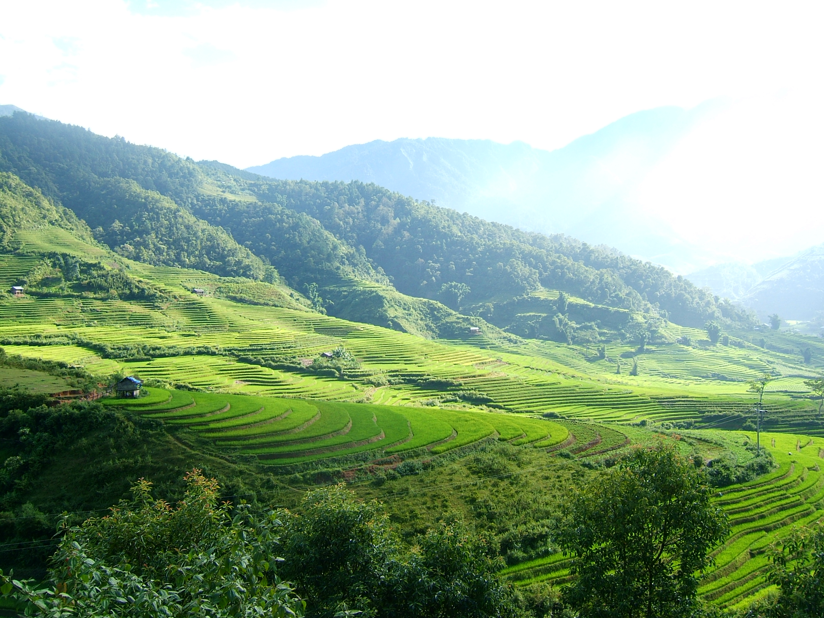 Trạm Tấu District, Yen Bai Province, Vietnam